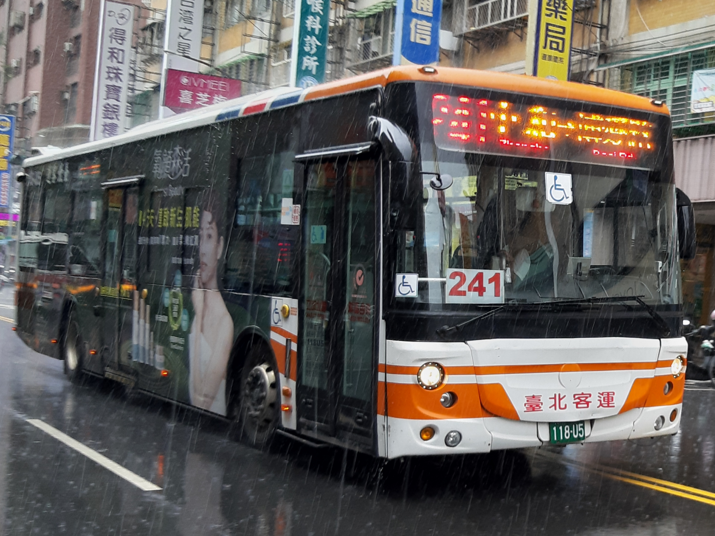 241車輛